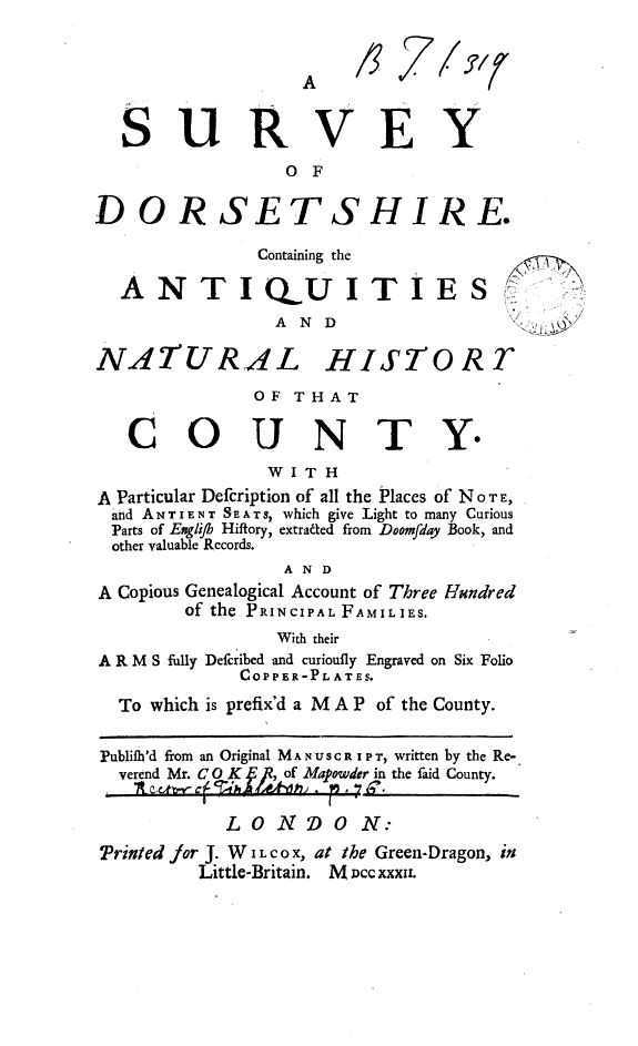 A Survey of Dorsetshire (1732), once attributed to John Coker, now known to be by Thomas Gerard. The earliest county history of Dorset.